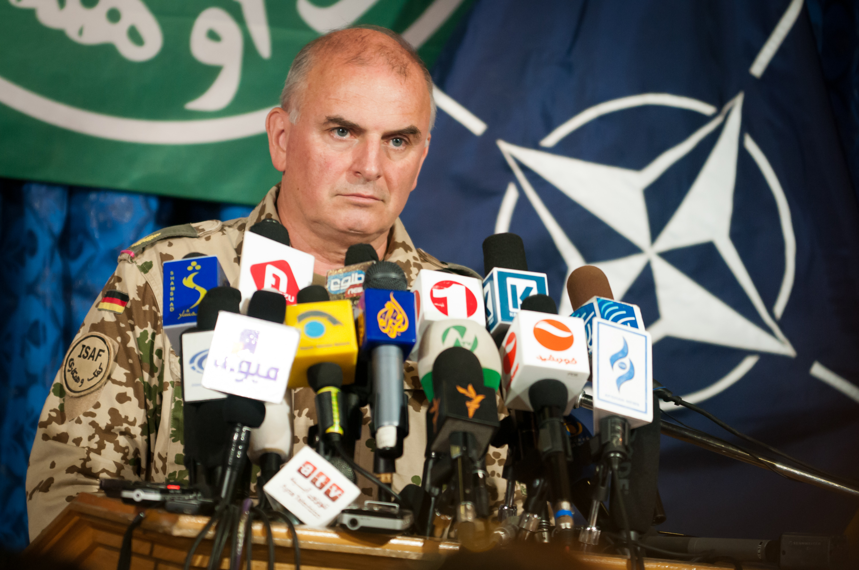 German Army Brig. Gen. Carsten Jacobson, International Security Assistance Force spokesperson, listens to a question from a local journalist during a press conference at ISAF headquarters in Kabul, May 14. The press conference was held to answer questions from local and international medias about the third tranche of the transition process announced by afghan government officials on May 13 and about the upcoming NATO Chicago Summit . (Photo by HQ ISAF Public Affairs, Maitre Christian Valverde, French Navy).